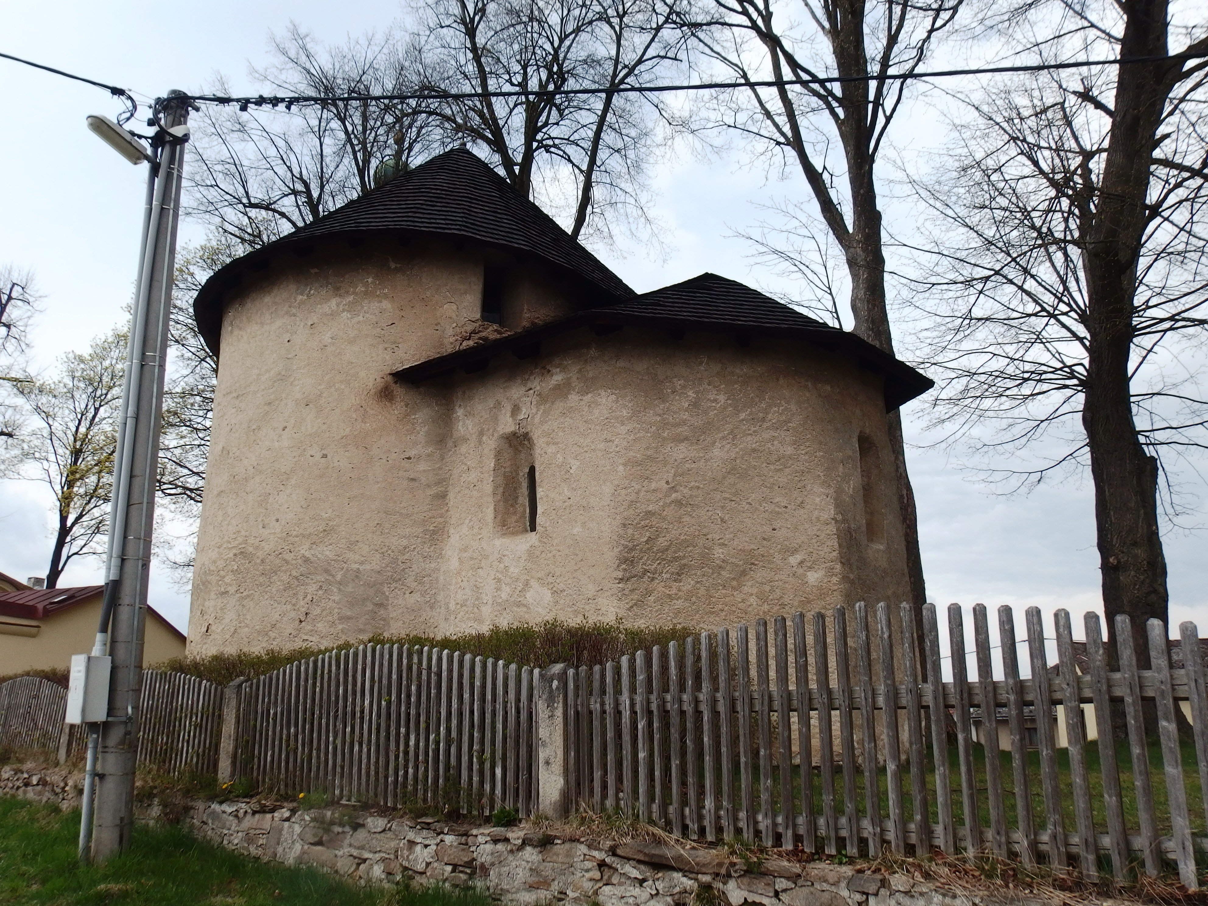 Stonařov, Jihlava District, Czech Republic.